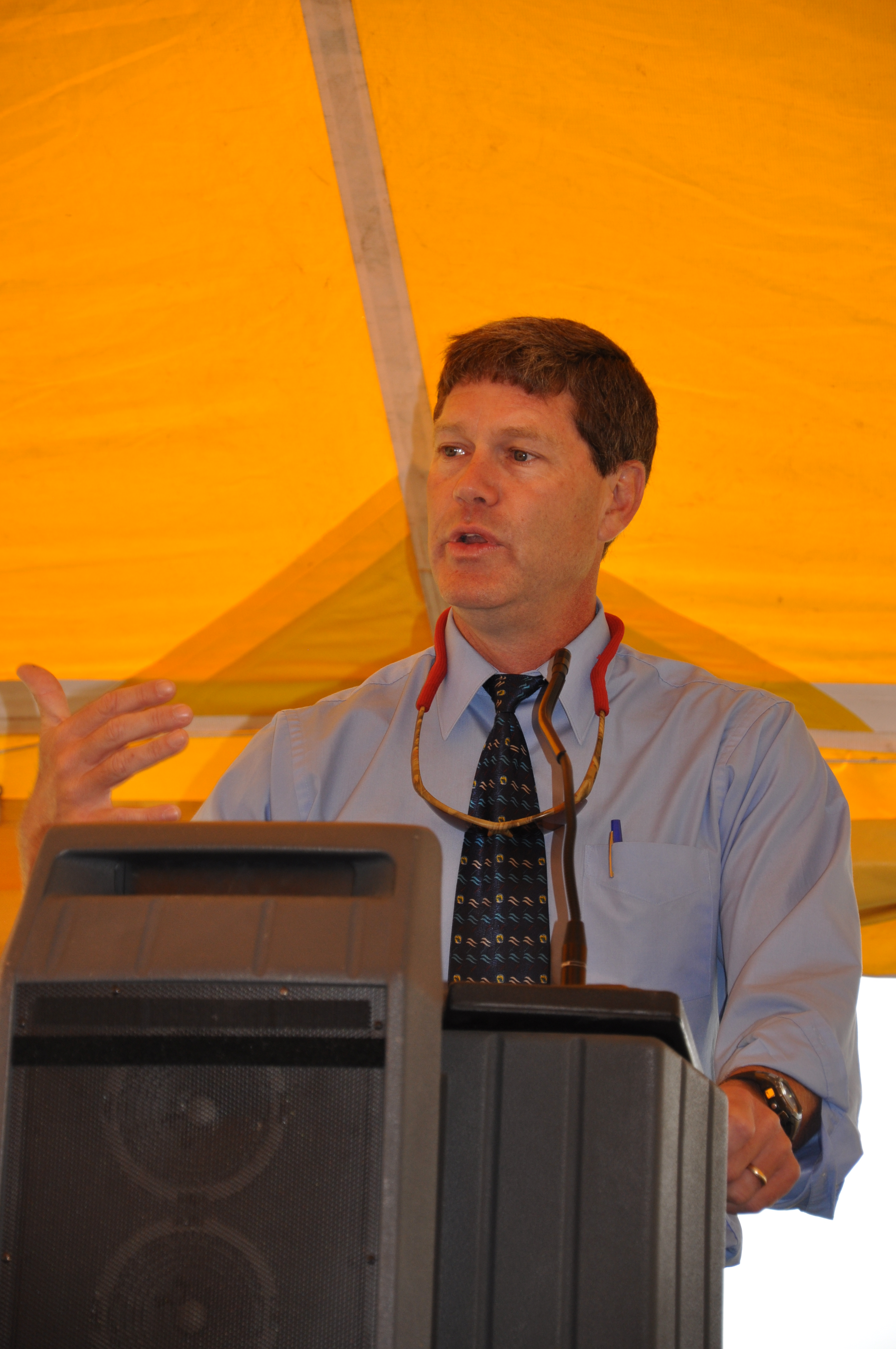 Congressman Ron Kind addresses the crowd at the grand opening ceremony. Photo by Ketti Spomer/USFWS.